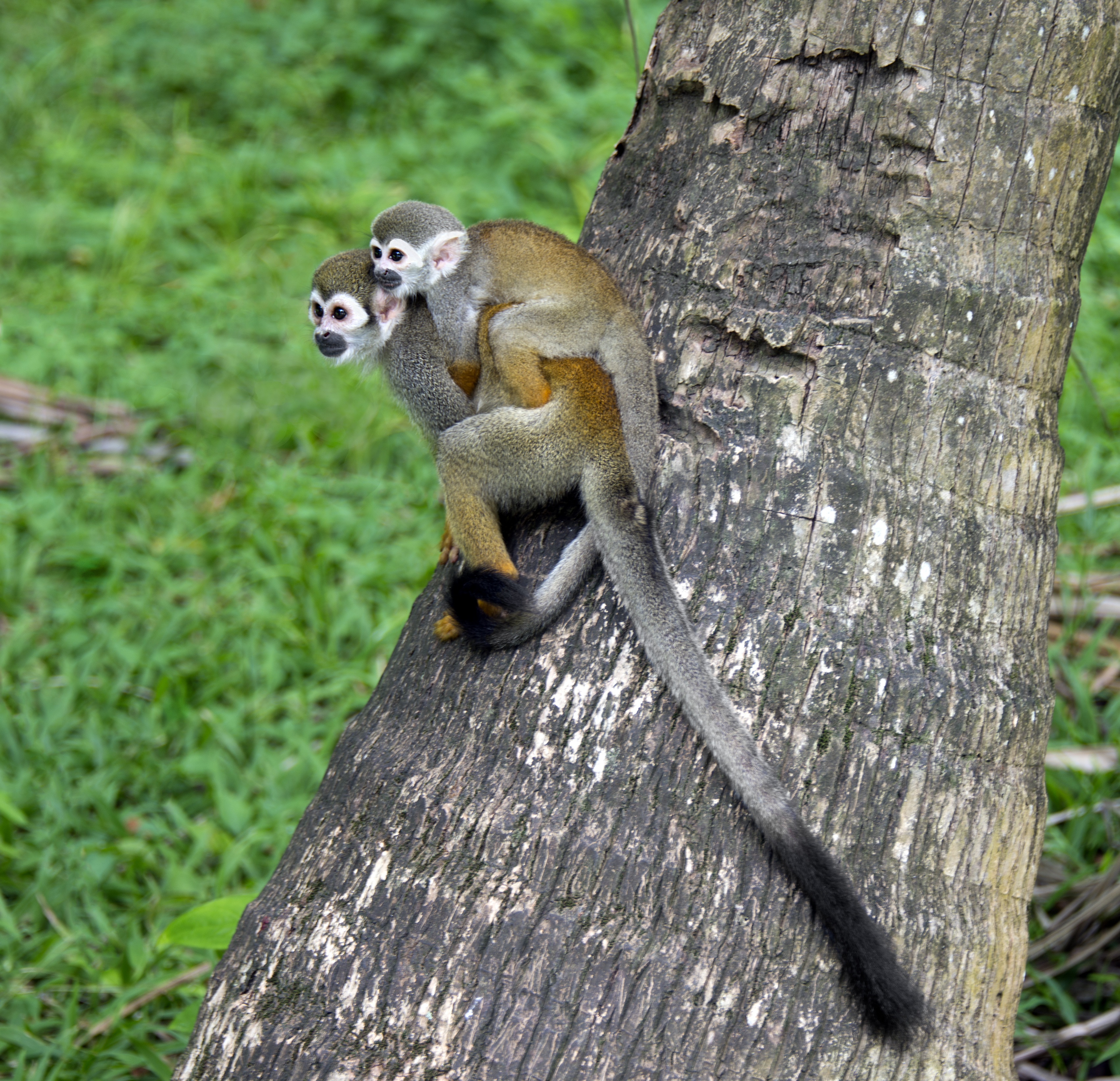 Common squirrel monkey (Saimiri sciureus) in the wild on the island of La Mère, French Guiana.